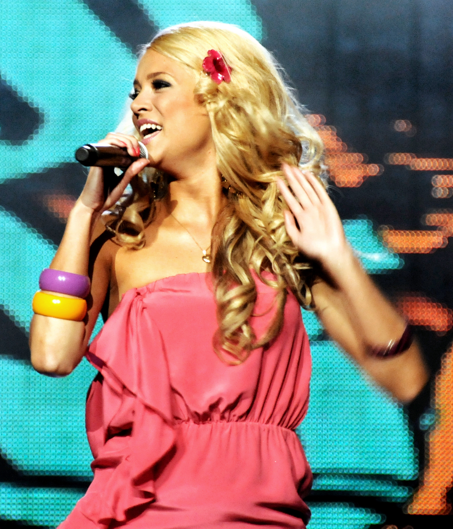 singer Andrea Myrander of the Swedish musical group Basic Element, August 2008 Andrea Myrander, wokalistka szwedzkiego zespołu Basic Element, sierpień 2008 r.